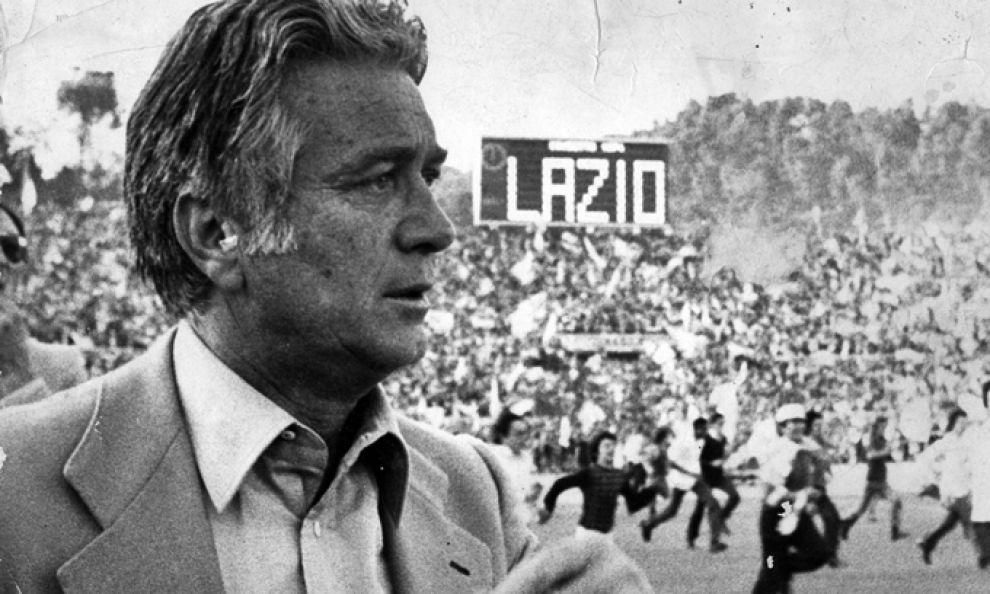 Tommaso Maestrelli, Italian association player and coach, watches the celebrations of S.S. Lazio's supporters after the win of the club's first ever Italian championship in 1974.